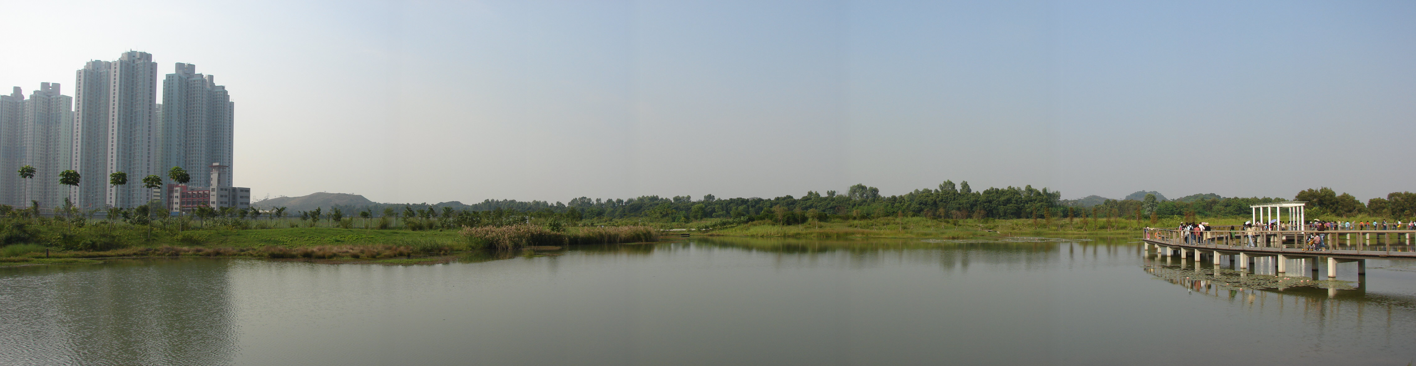 Panoramics in Hong Kong